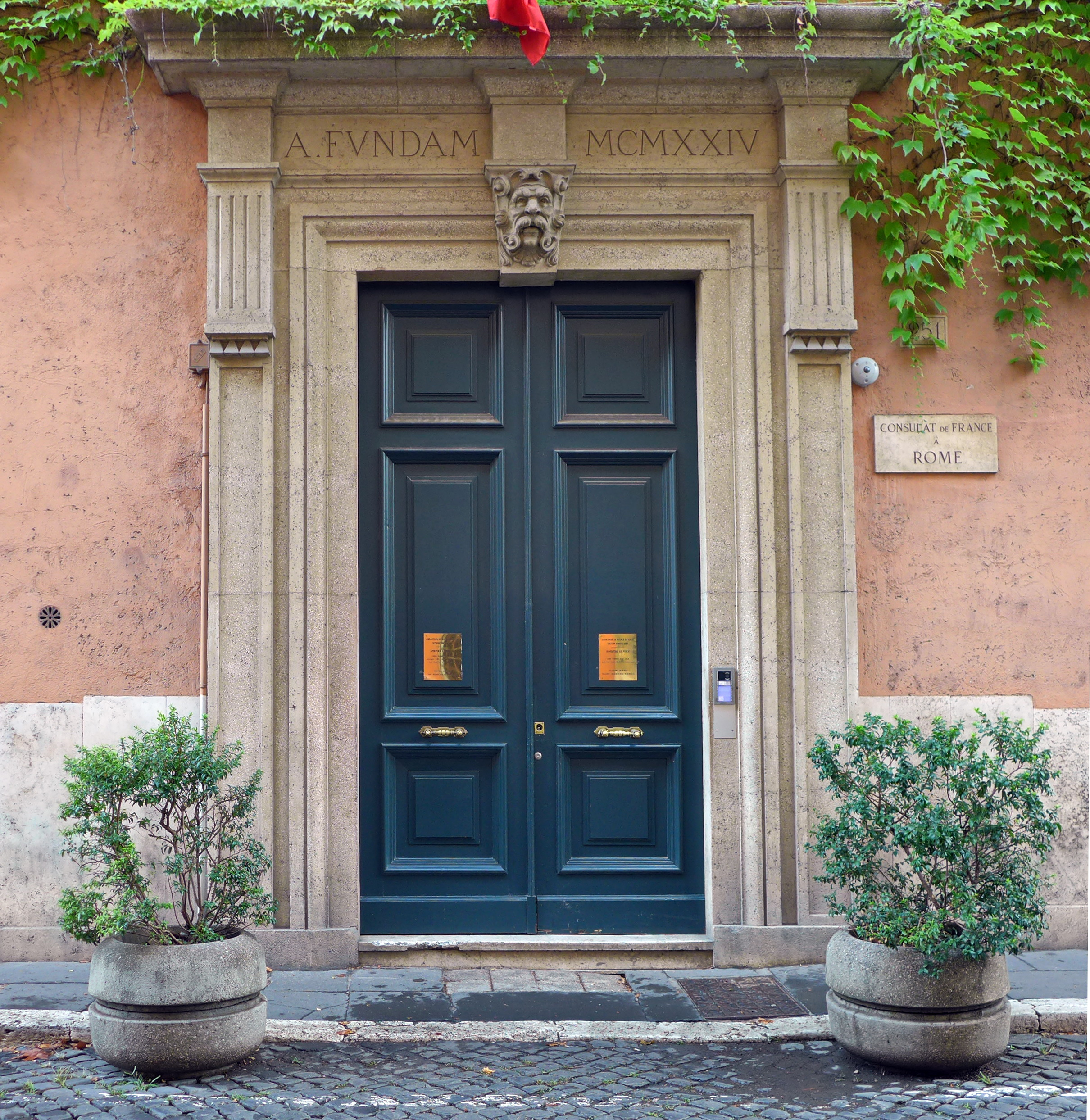 Via Giulia (Rome) Palazzetto Pateras Pescara; Consulat de France